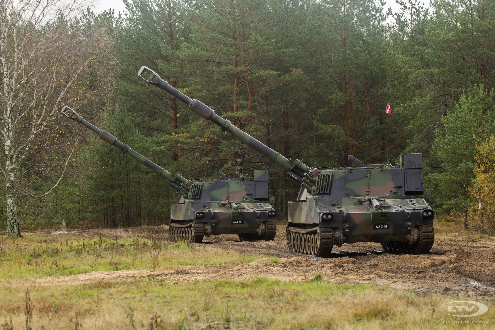 Latvian Army M109 A5o Howitzer